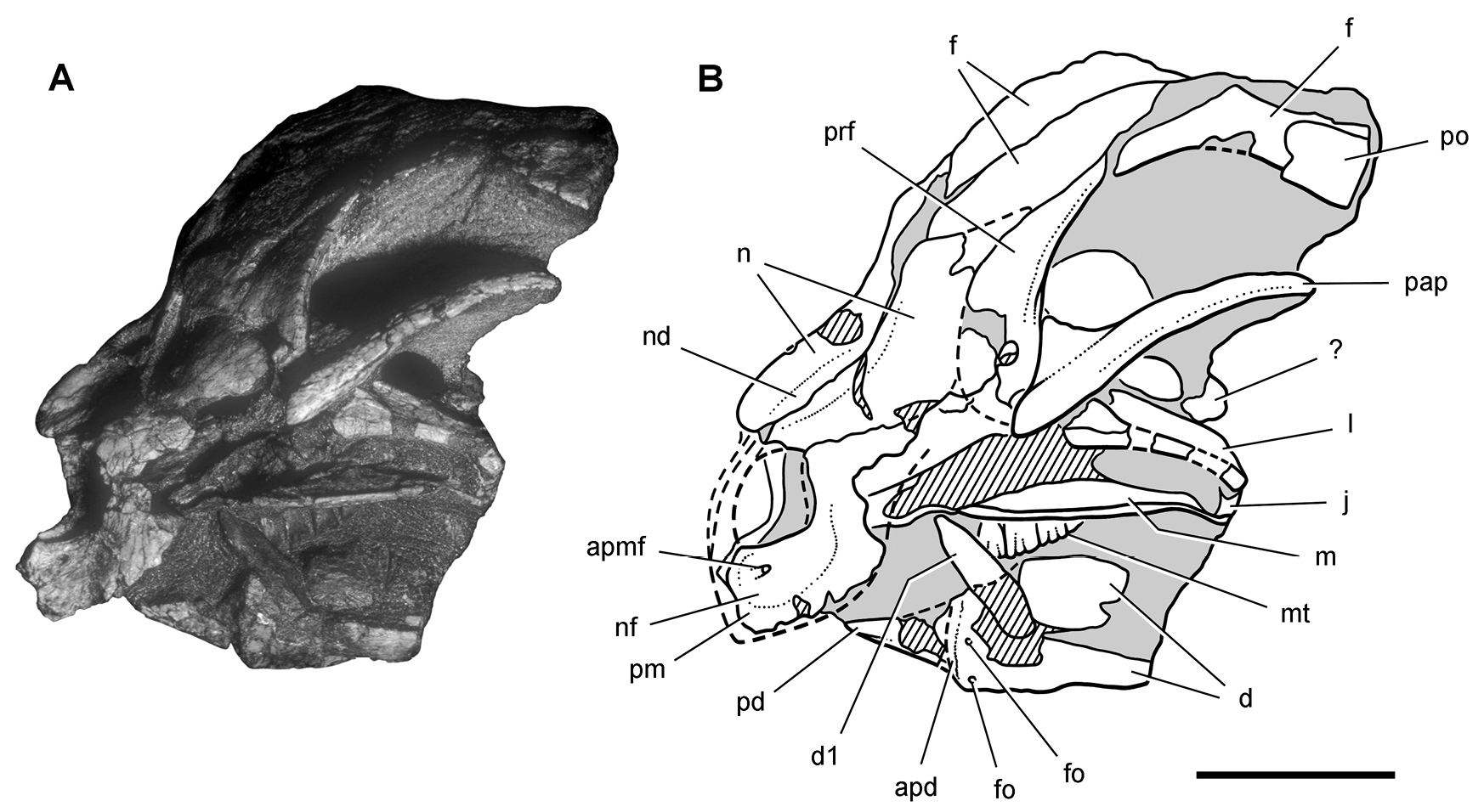 Snout of the heterodontosaurid Heterodontosaurus tucki from from the Lower Jurassic Upper Elliot and Clarens formations of South Africa. Anterior one-half of a juvenile skull (SAM-PK-K10487). Photo (A) and line drawing (B) in anterolateral view. Hatching indicates broken bone; dashed lines indicate estimated edges; tone indicates matrix. Scale bars equal 1 cm in A and B. Abbreviations: apd articular surface for predentary apmf anterior premaxillary foramen d dentary d1 dentary tooth 1 f frontal fo foramen j jugal l lacrimal m maxilla mt maxillary teeth n nasal nd nasal depression nf narial fossa pap palpebral pd predentary pm premaxilla po postorbital prf prefrontal.